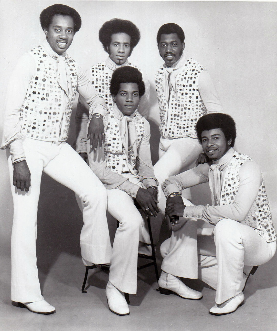 Photo of The Temptations.